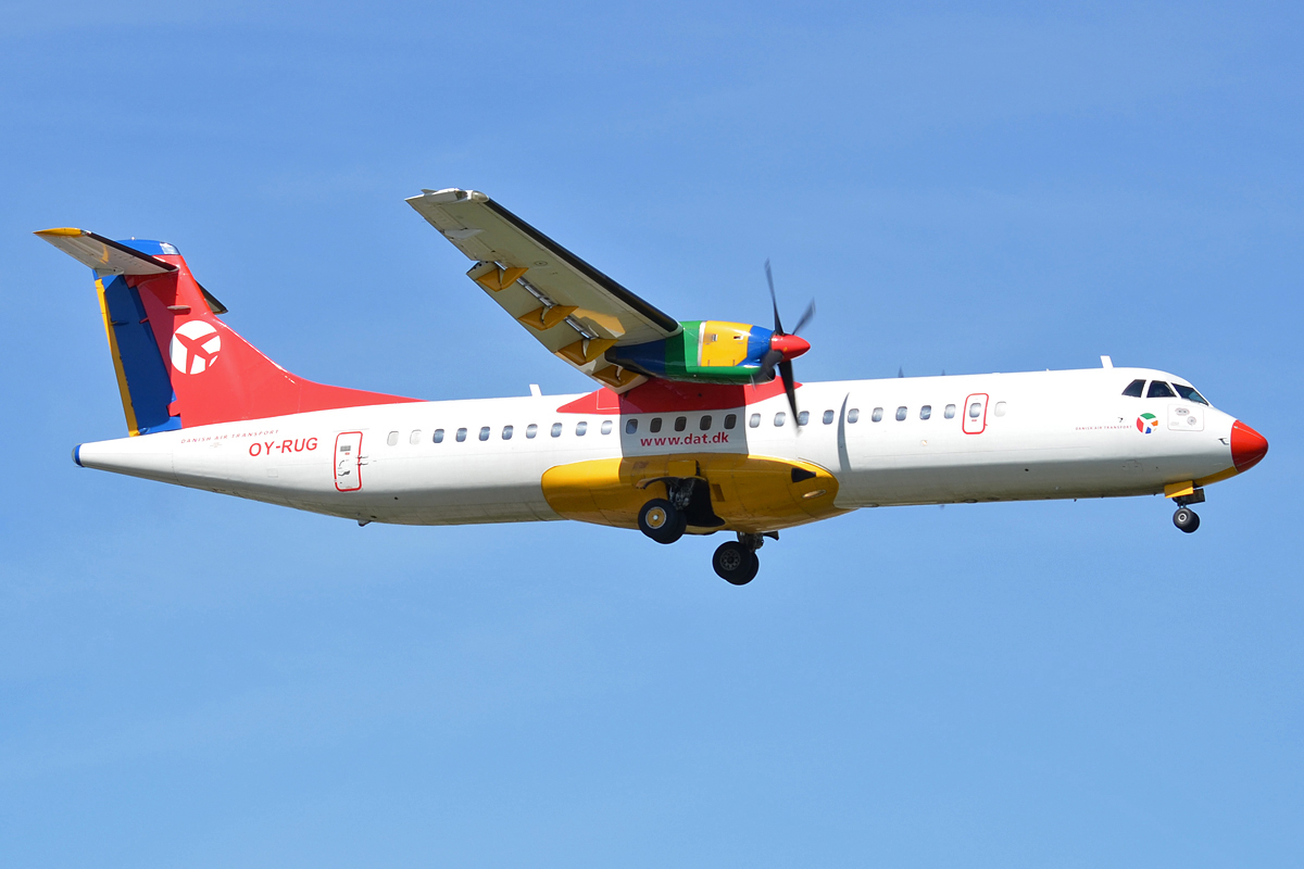 Danish Air Transport, OY-RUG, ATR 72-202